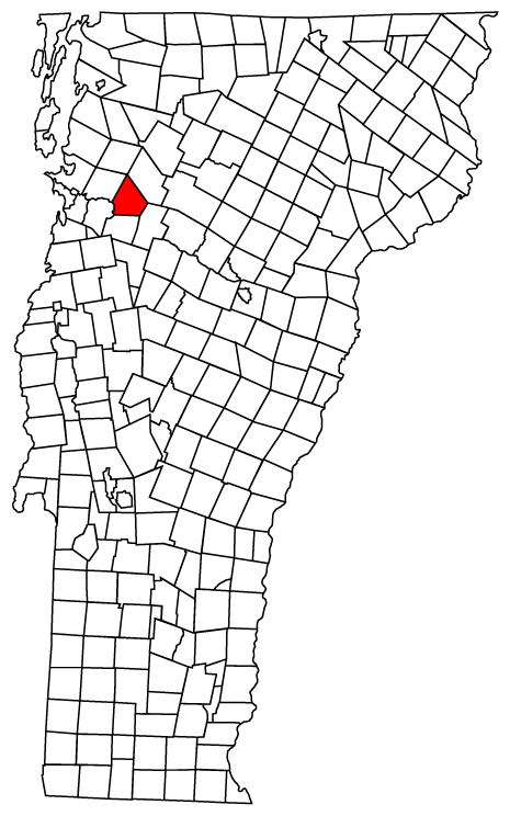 Description: Map of Vermont towns with Jericho highlighted Source: Map created by Jared C. Benedict on 26 March 2004. Copyright: © Jared C. Benedict.